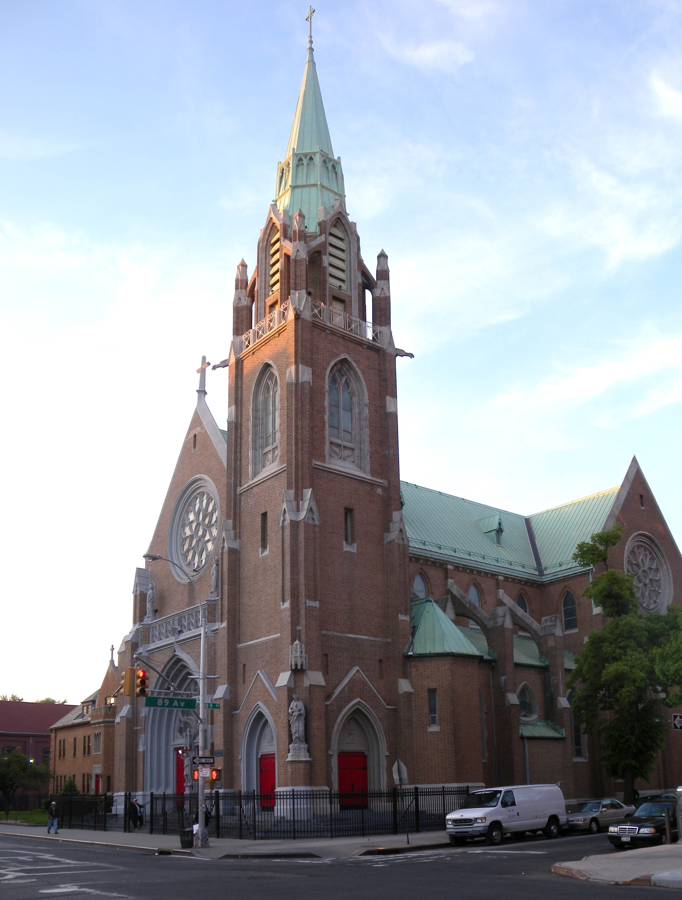 Looking north across 89th Avenue and Parsons Boulevard at Presentation of Blessed Virgin Mary RC Church in Jamaica at dusk of a sunny day.